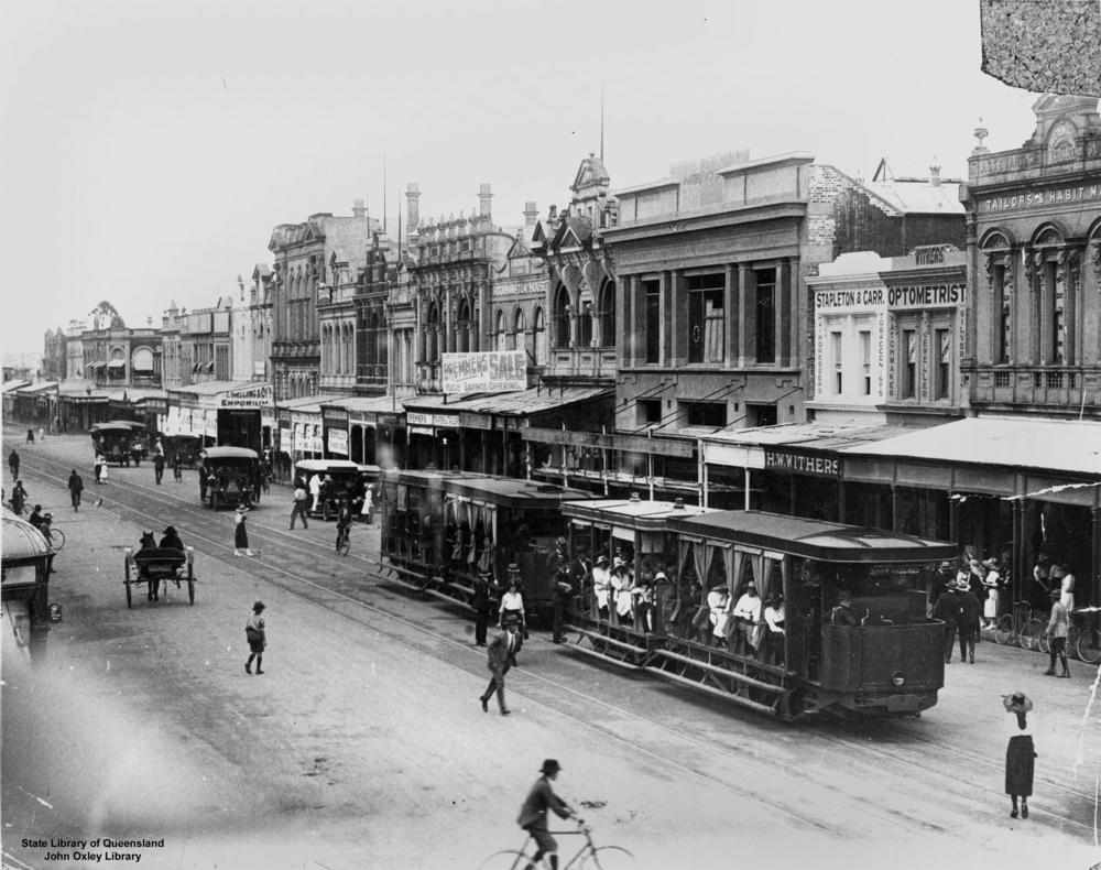 Trams and other vehicles on East Street, Rockhampton, 1923 Pedestrians, trams and other vehicles on East Street, Rockhampton. The facades, awnings and signs of the shops are visible.